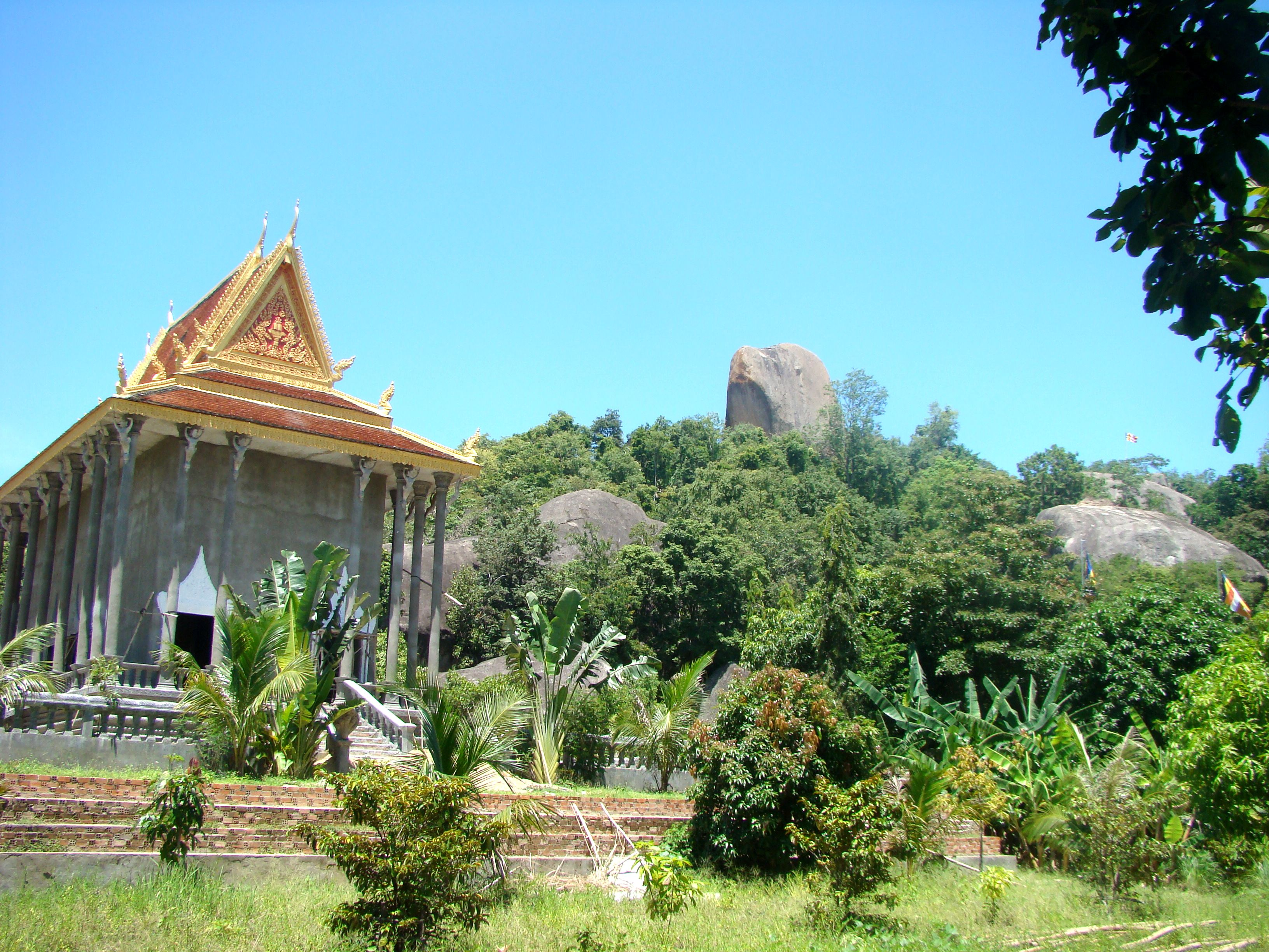 An under-construction Buddhist temple in Cambodia.